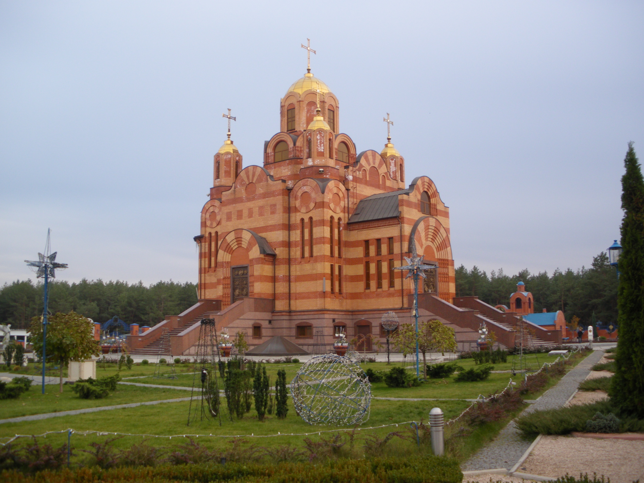 Temple in honor of Iverian Icon of the Mother of God (Dnipro)